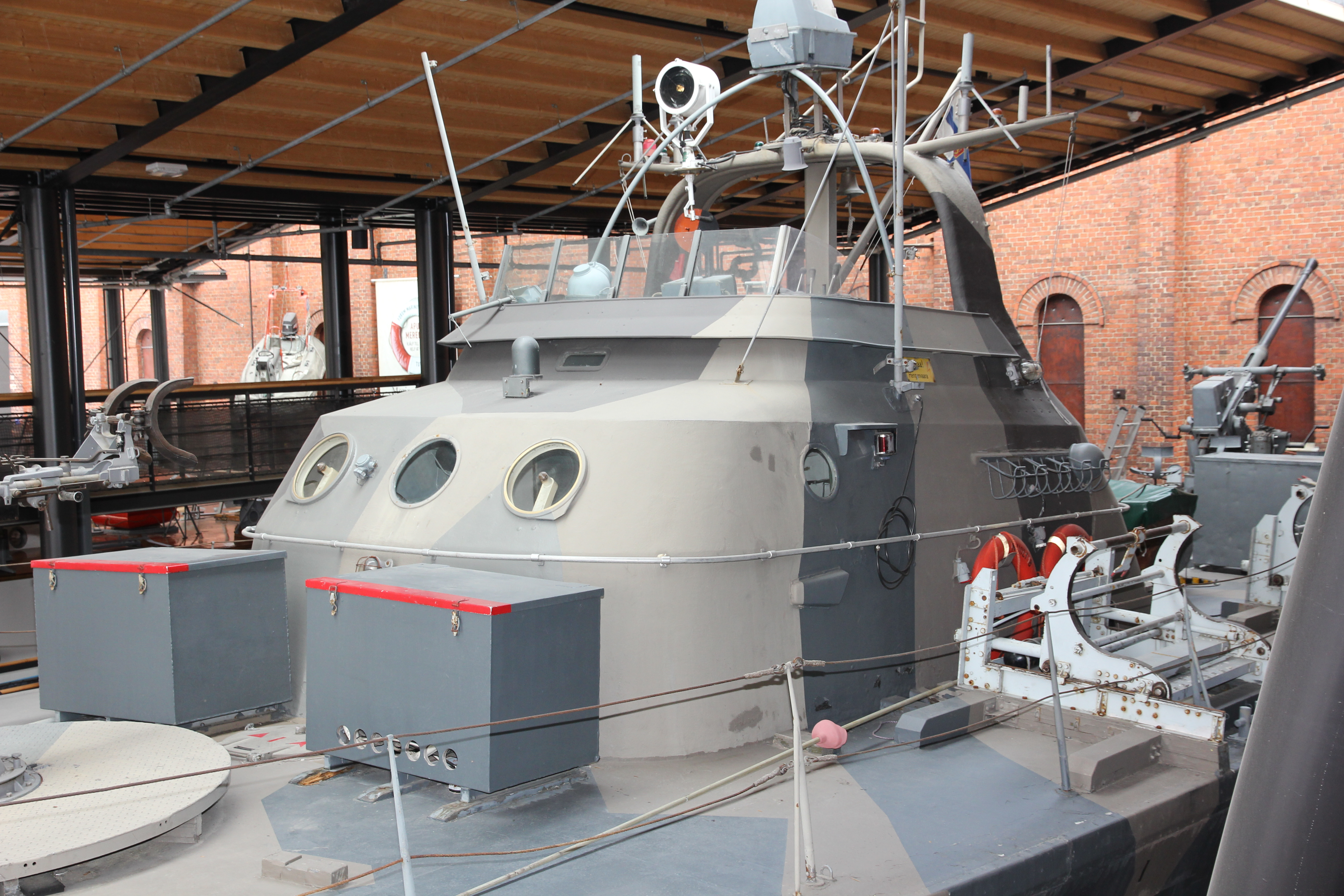 Motor gunboat Nuoli 8 preserved in Forum Marinum maritime museum.